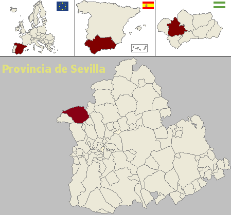 El Castillo de las Guardas